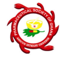 NA